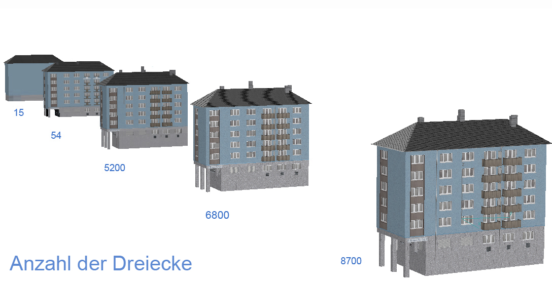 Test of different LOD levels of a building 3D model.